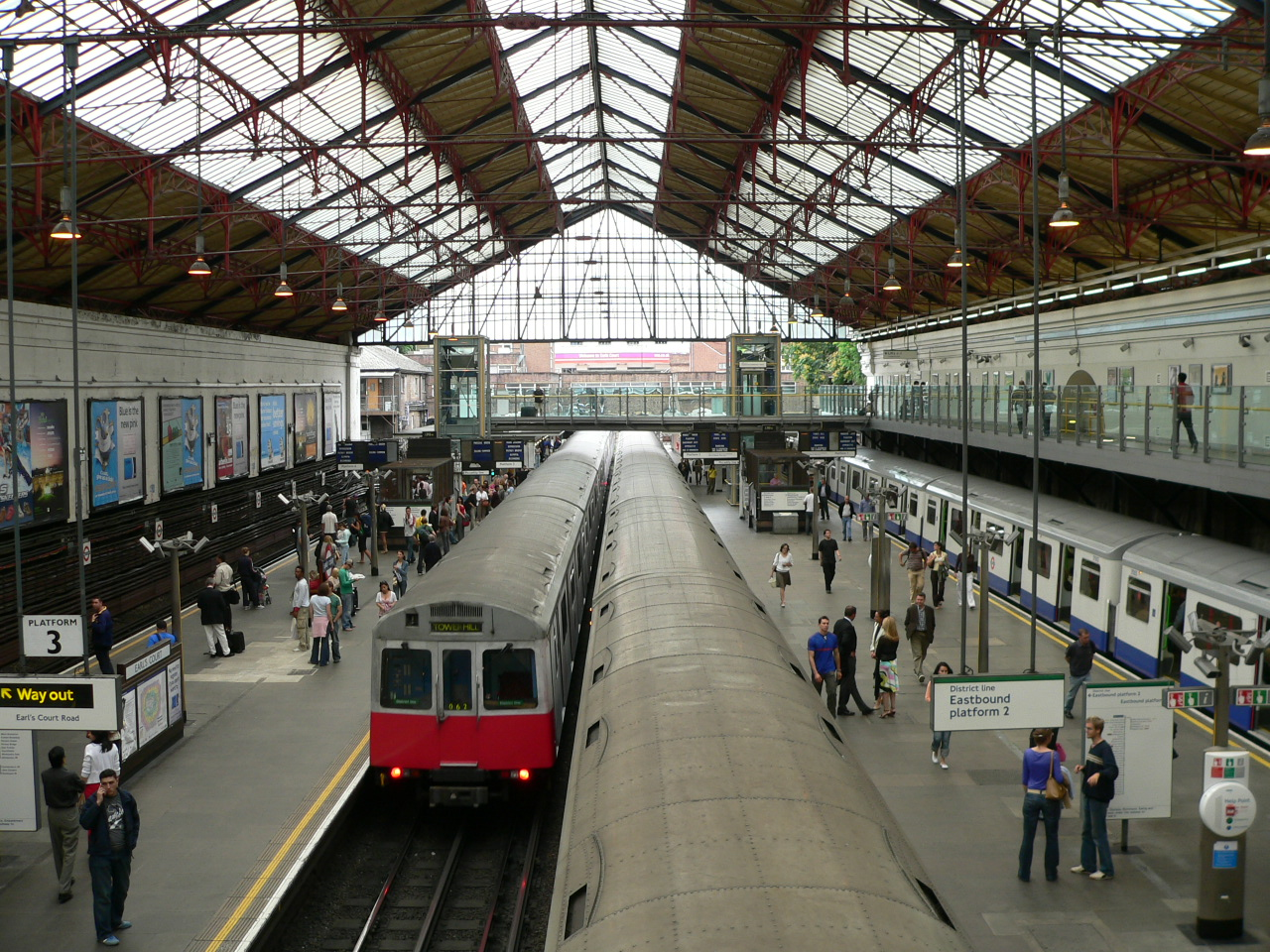 The District Line platforms at Earl's Court London Underground station viewed from the main concourse. The leftmost train is an unrefurbished London Underground D78 Stock on a westbound service. The train on the far right platform is one of the refurbished D78 stock units on an eastbound service, that the platform indicators suggest is en-route to Tower Hill. The train in the centre of the picture is a London Underground C69 Stock train heading east to Edgware Road via High Street Kensington.